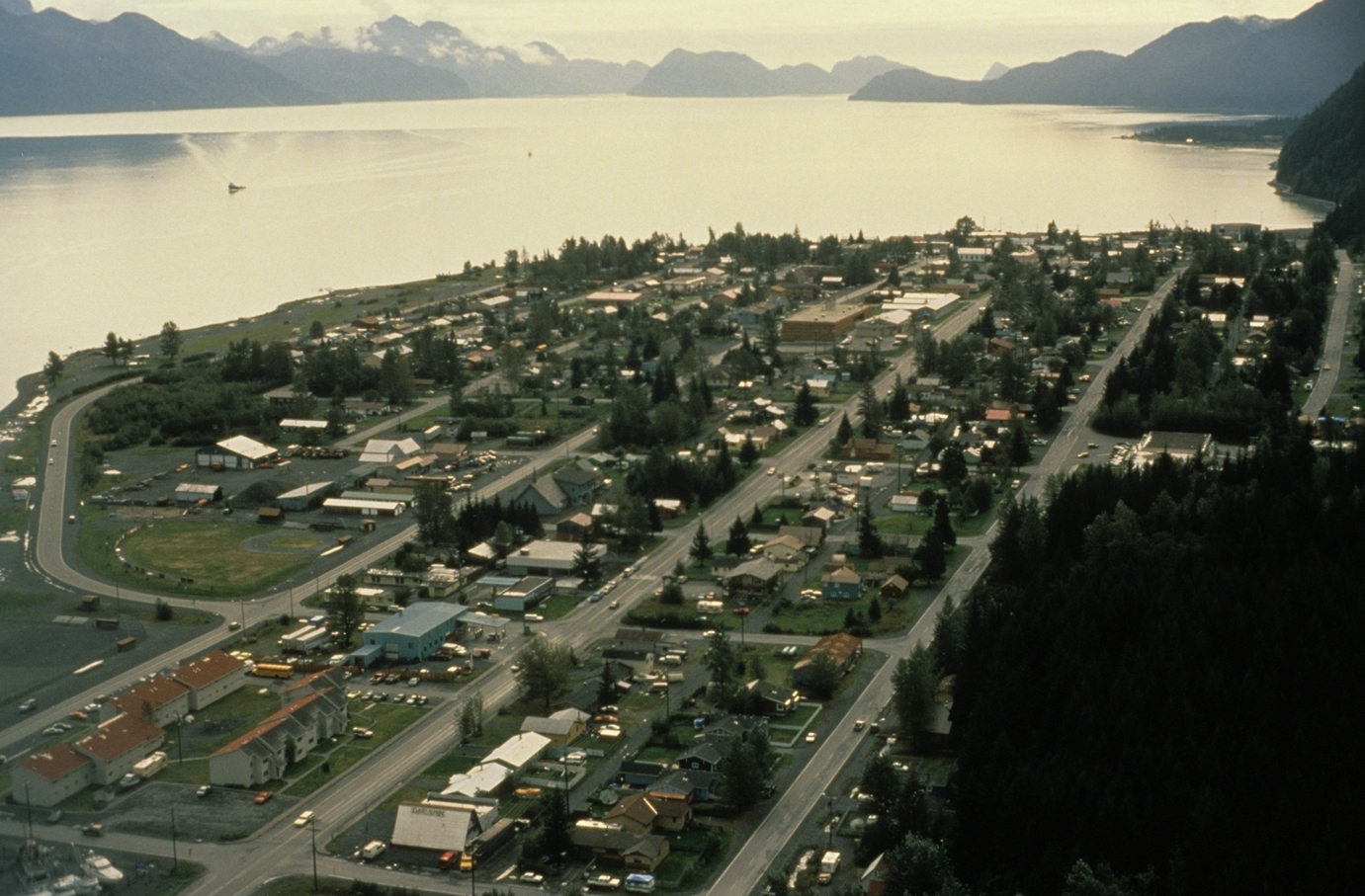 Aerial View of Seward, Alaska, showing the townsite and Resurrection Bay, as it appeared in 1989.